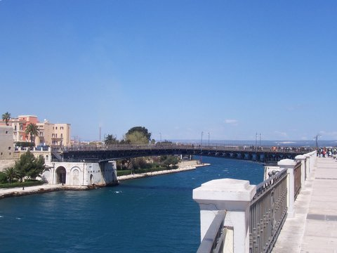 Desciption: Ponte Girevole (Taranto) Source: taken by myself Photographer: Asia Date: 15.4.2006